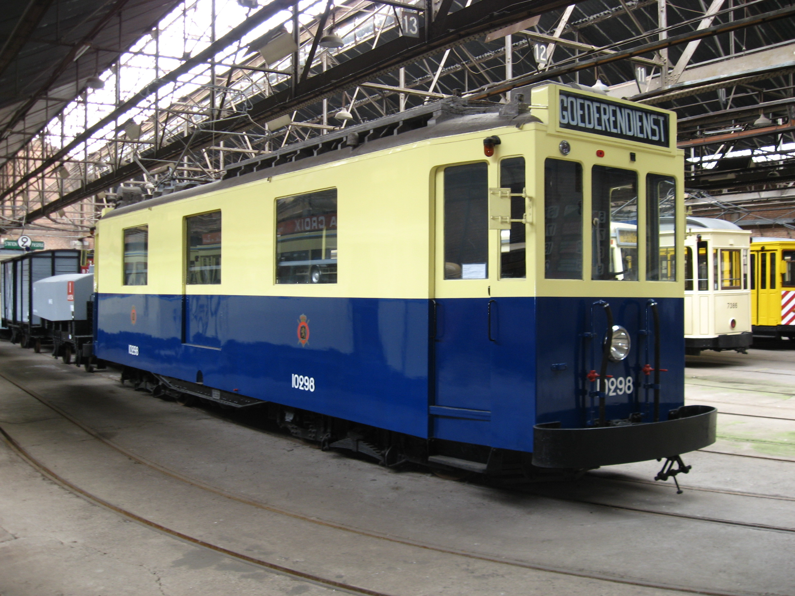 SNCV motortram rebuild as tractor for the goods traffic.